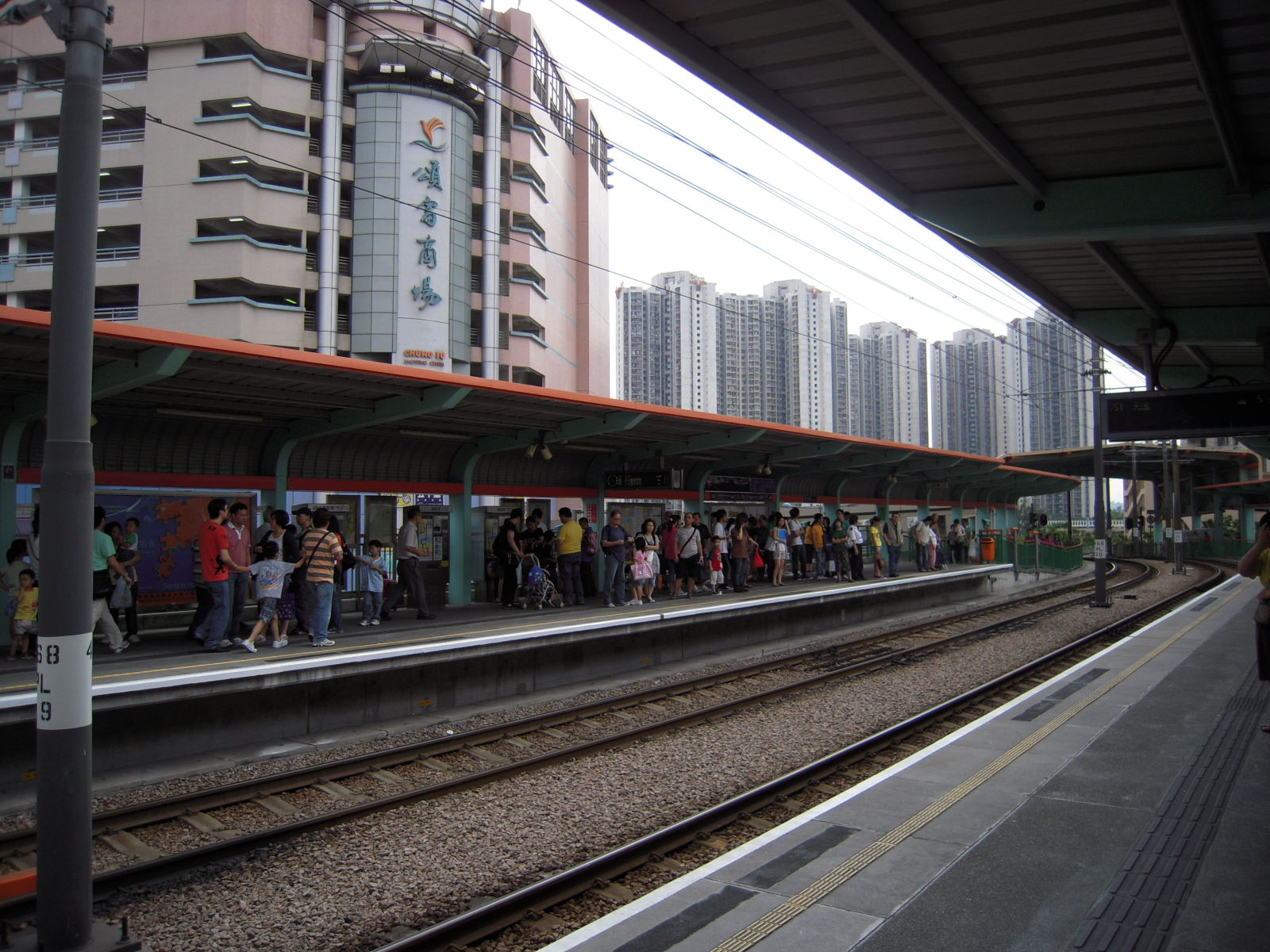 LRT Chung Fu Stop, MTR HK